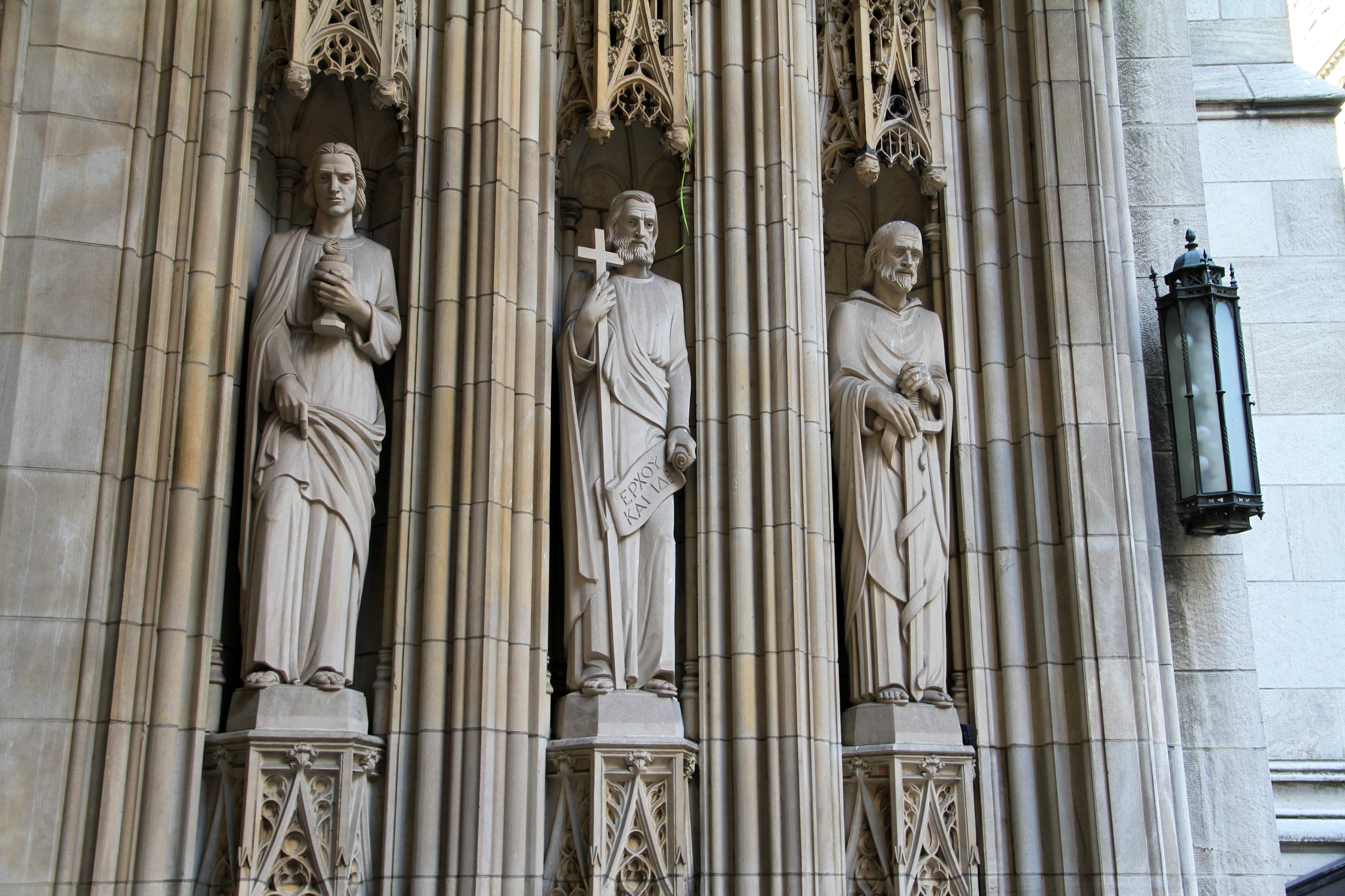 St. Thomas Church